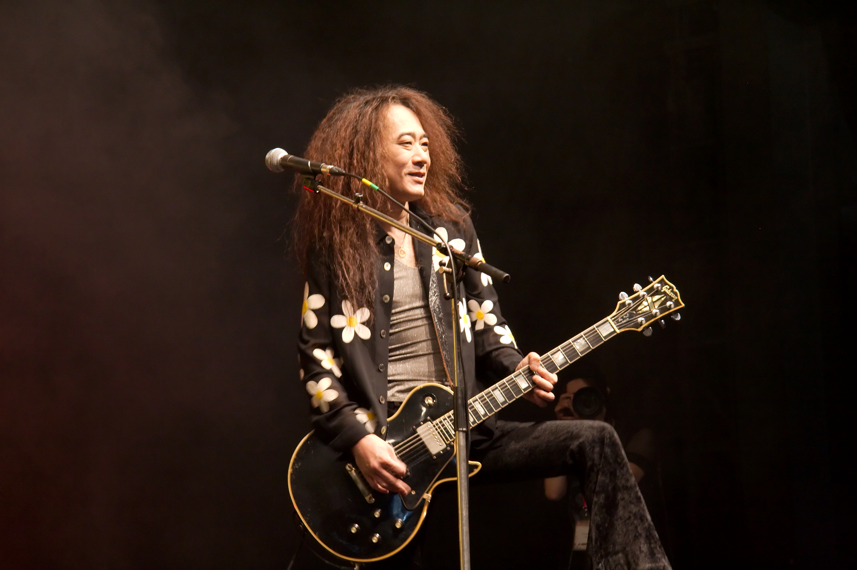 Ra:IN (Pata and Michiaki Suzuki) live at Japan Expo 2008 (Paris, France)